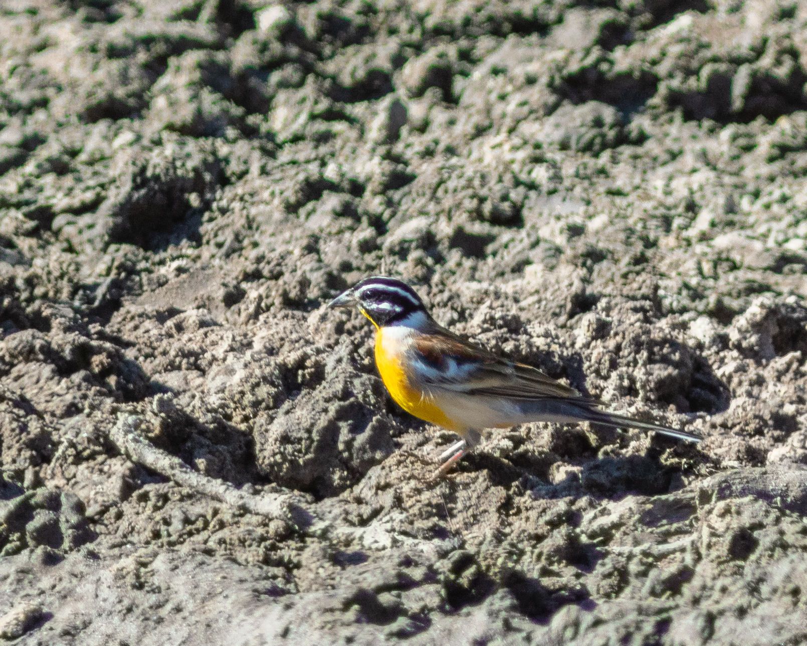 Golden-breasted bunting (Emberiza flaviventris), Khama Rhino Sanctuary, Botswana